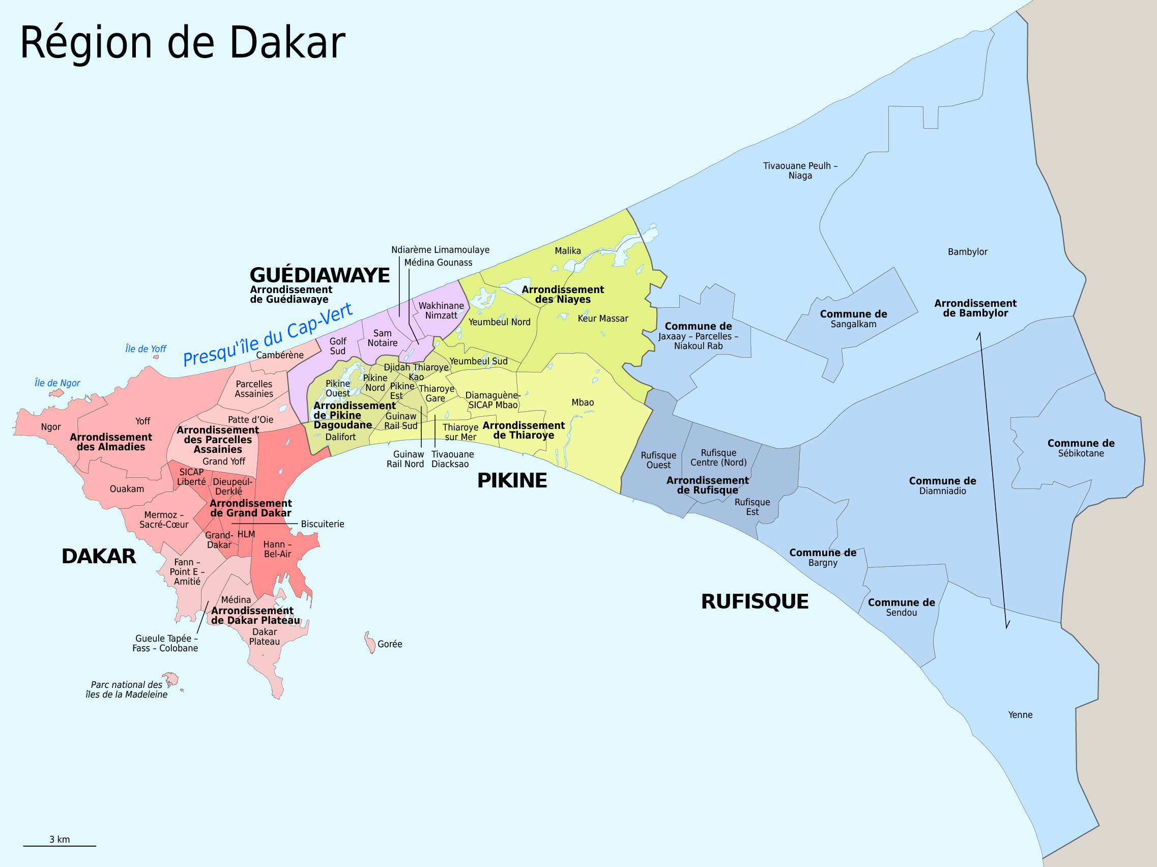 Aministrative map of the Dakar region